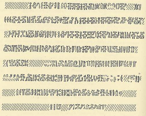 Barthel's tracing of rongorongo tablet G, recto